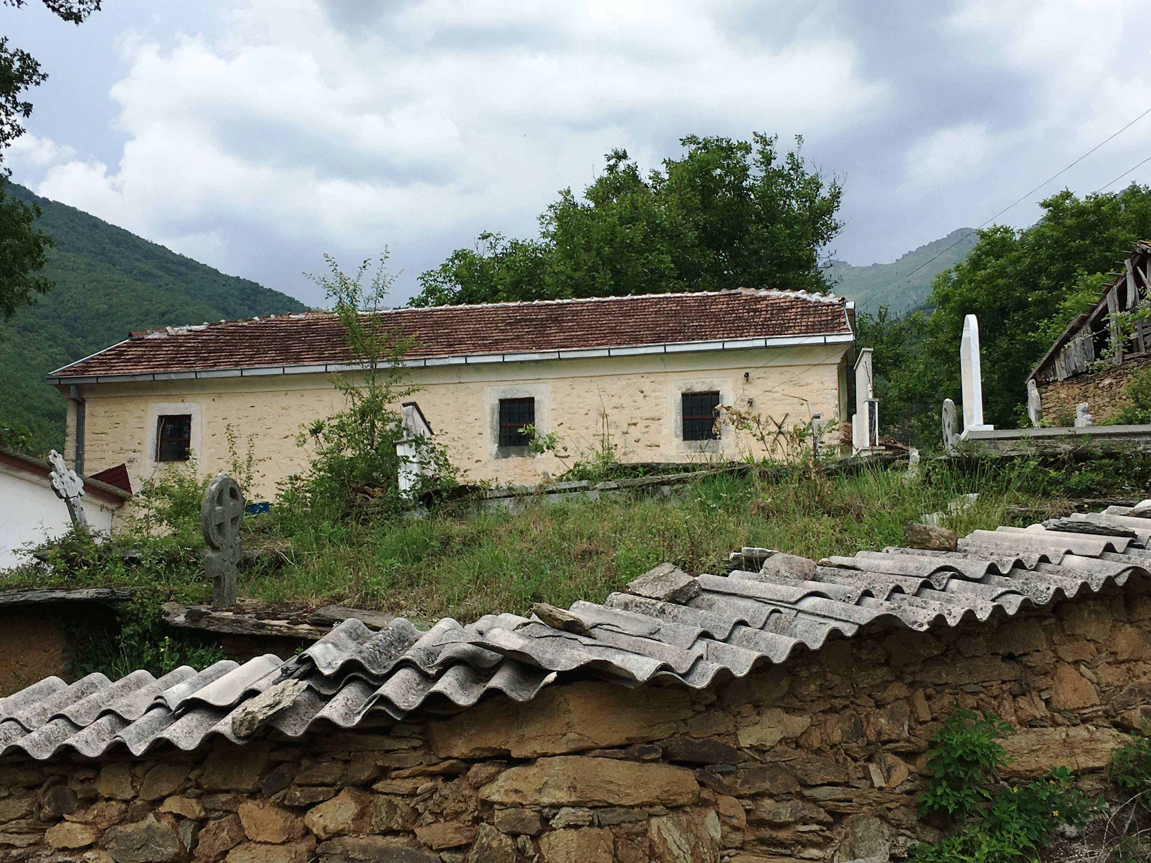 Church of the Presentation of the Theotokos in the village of Rusjaci